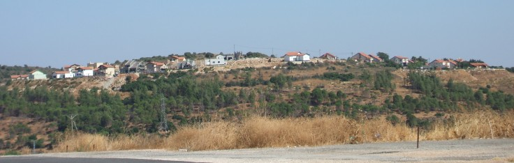 Kfar Hananya, Merom HaGalil Regional Council, Israel